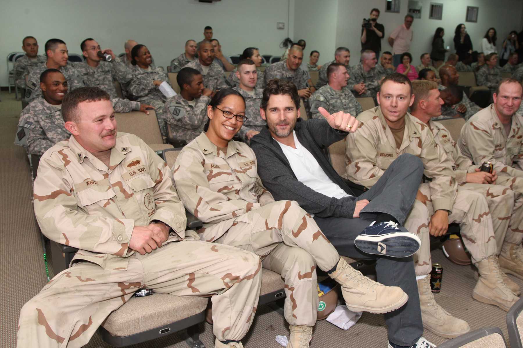 Eric Bana has his picture taken with US Soldiers,Seabee Sailors, Airmen and Marines at Camp Arifjan, Kuwait, during an April 11, 2009 screening of Star Trek.